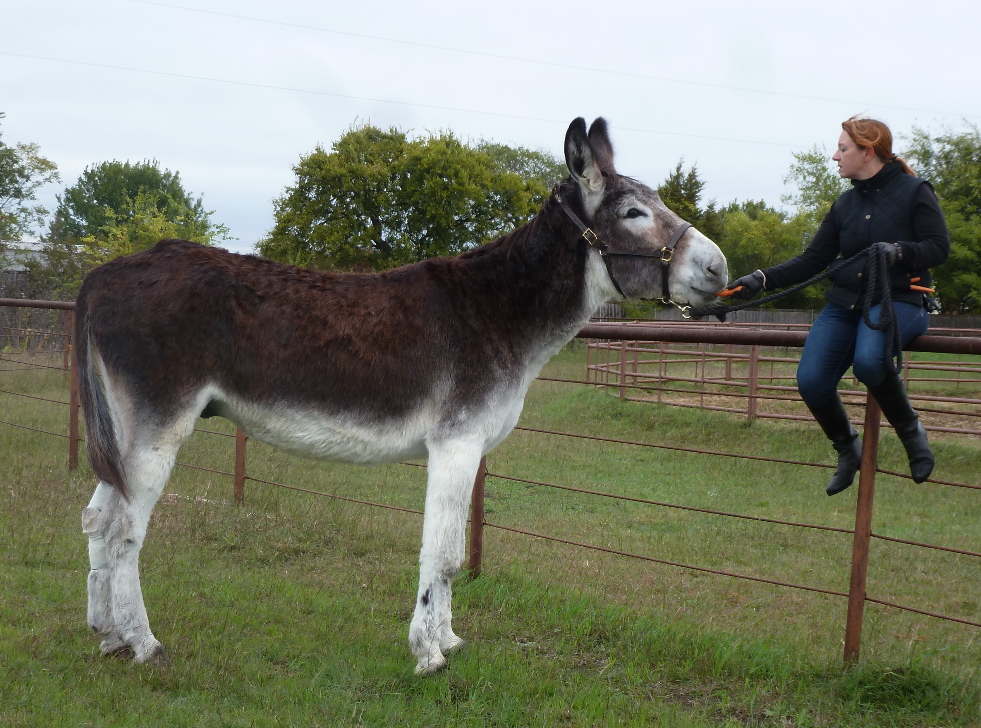 Romulus, the World's Tallest Living Donkey as of 2013, eating carrots with Cara Barker Yellott.